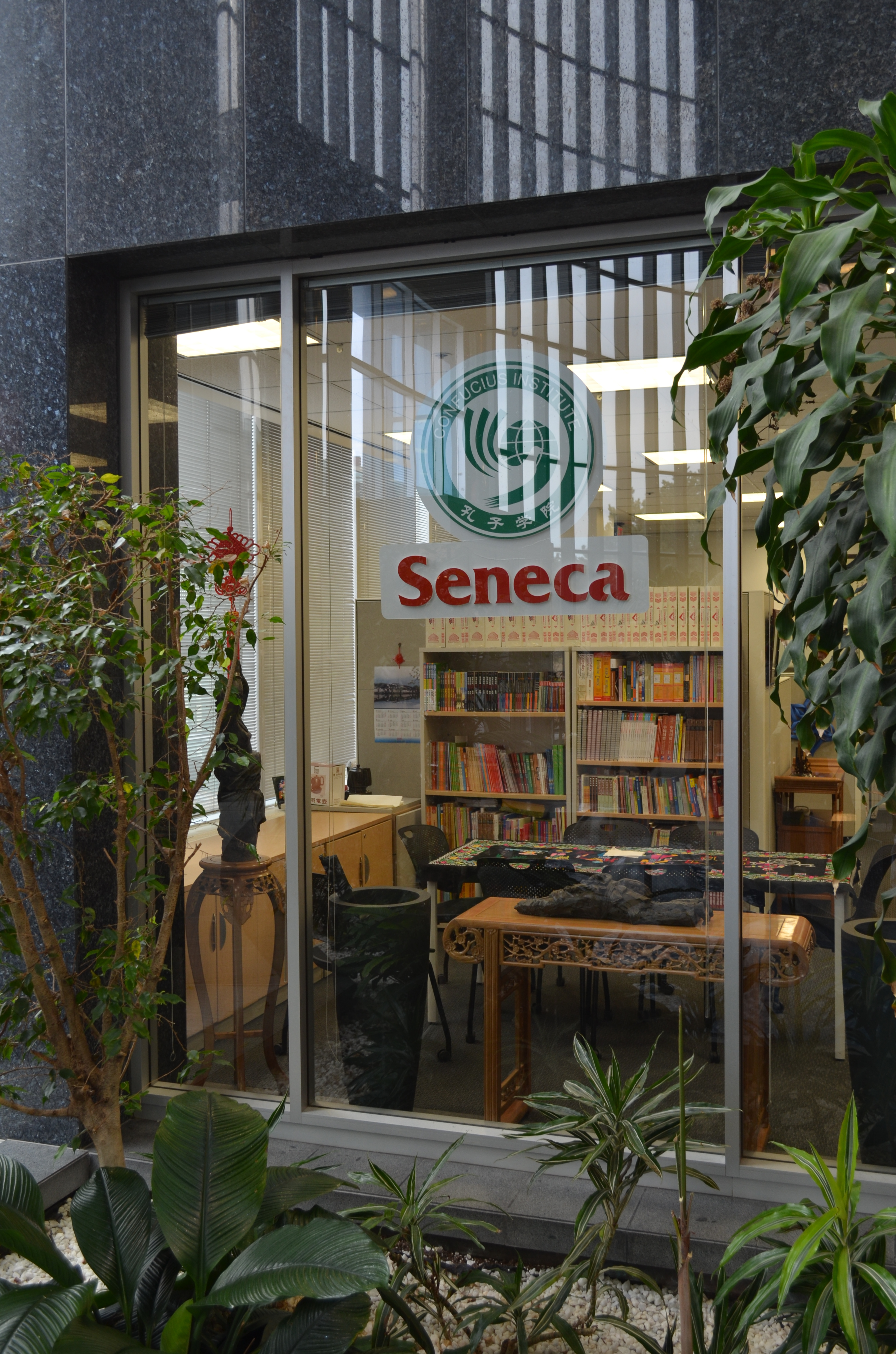 The Confucius Institute at Seneca